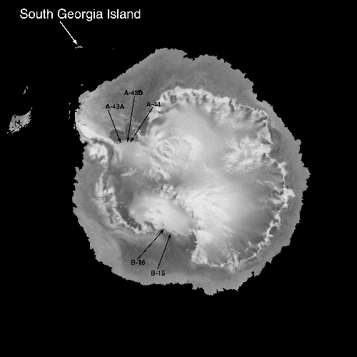 an image formed from SeaWinds sigma-0 measurements over a portion of the ocean near Antarctica